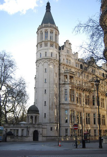 National Liberal Club, Whitehall Place, London. Also home of the Savage Club.